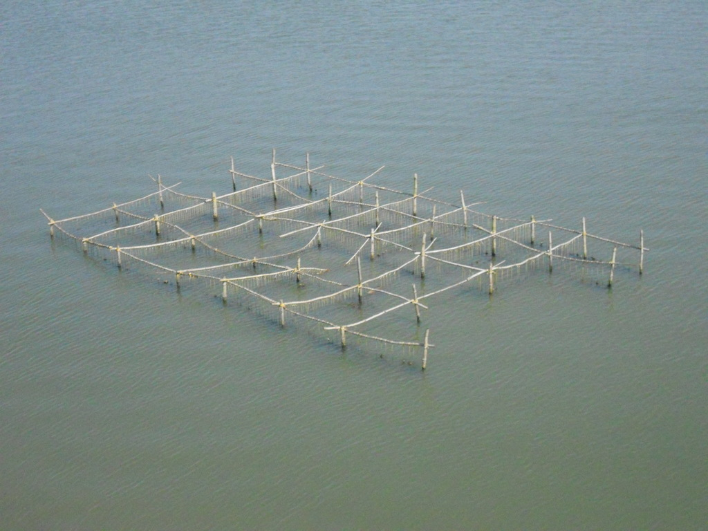 Mussel Farming in Ashtamudi lake,Chavara thekkumbagom,Kollam This media file is uploaded with India loves Wikipedia event.